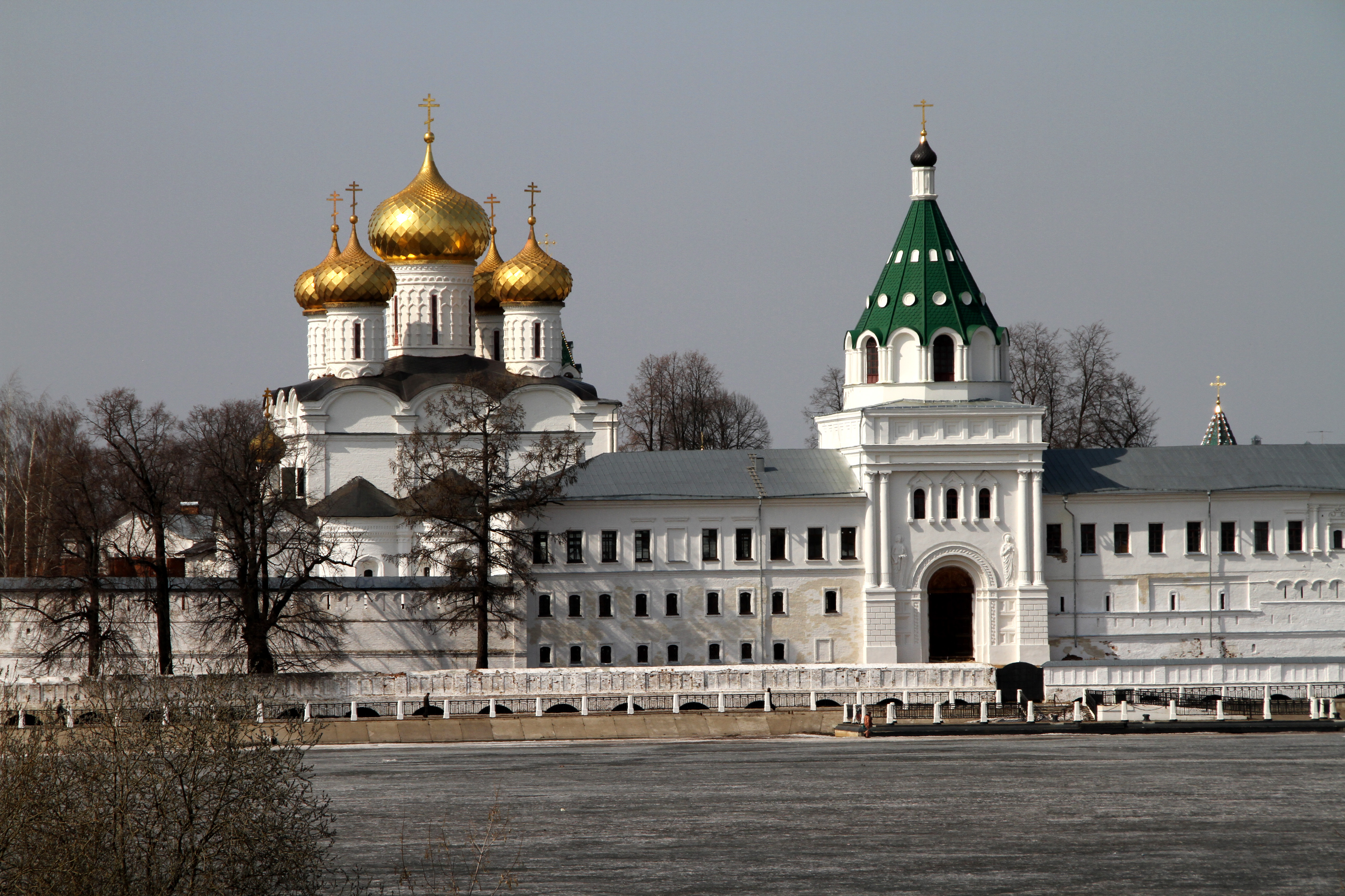 Ipatiev Monastery